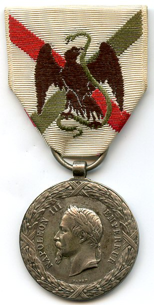 Mexican Expedition Medal (France) Obverse